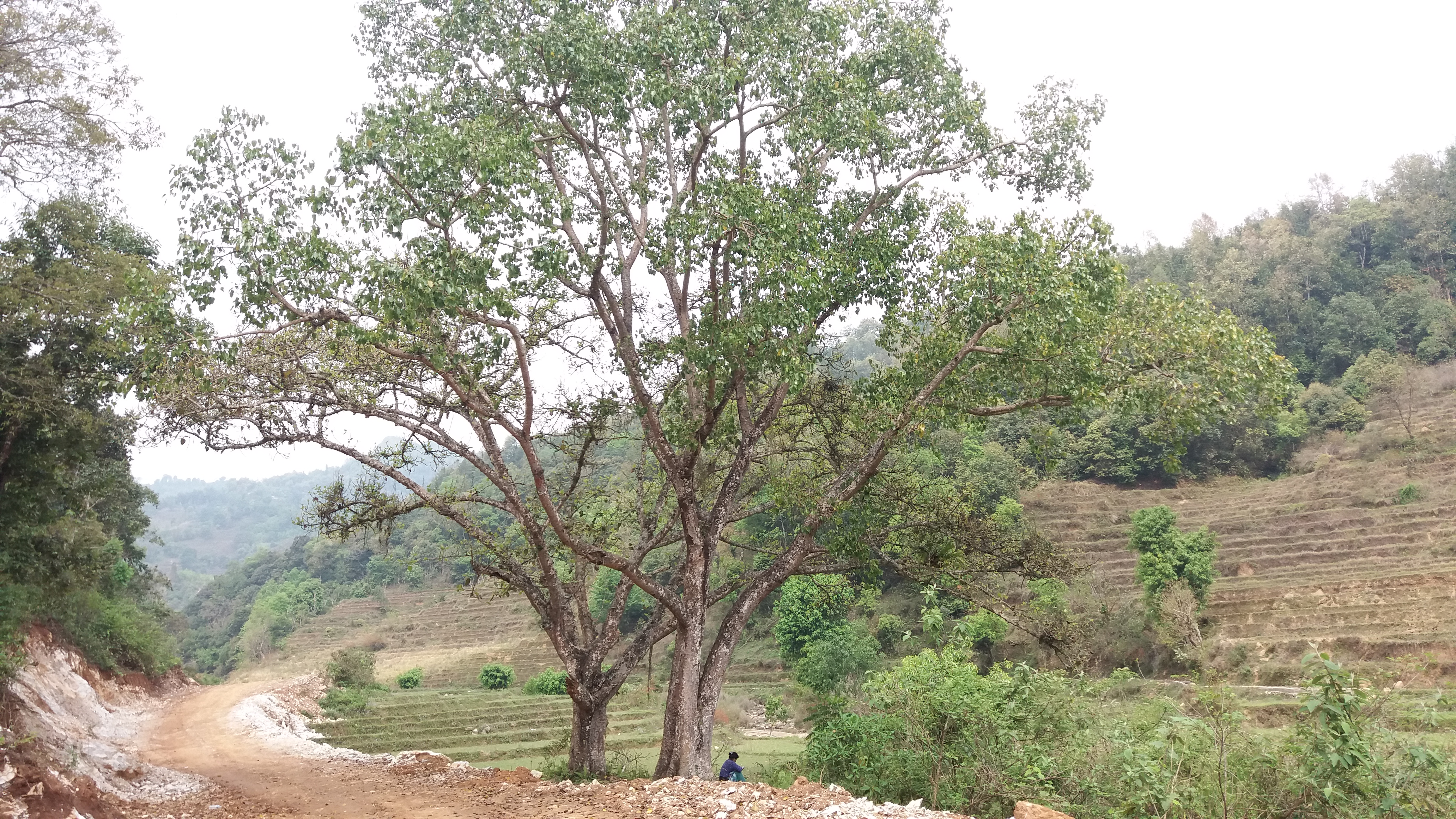 Picture of Chautari